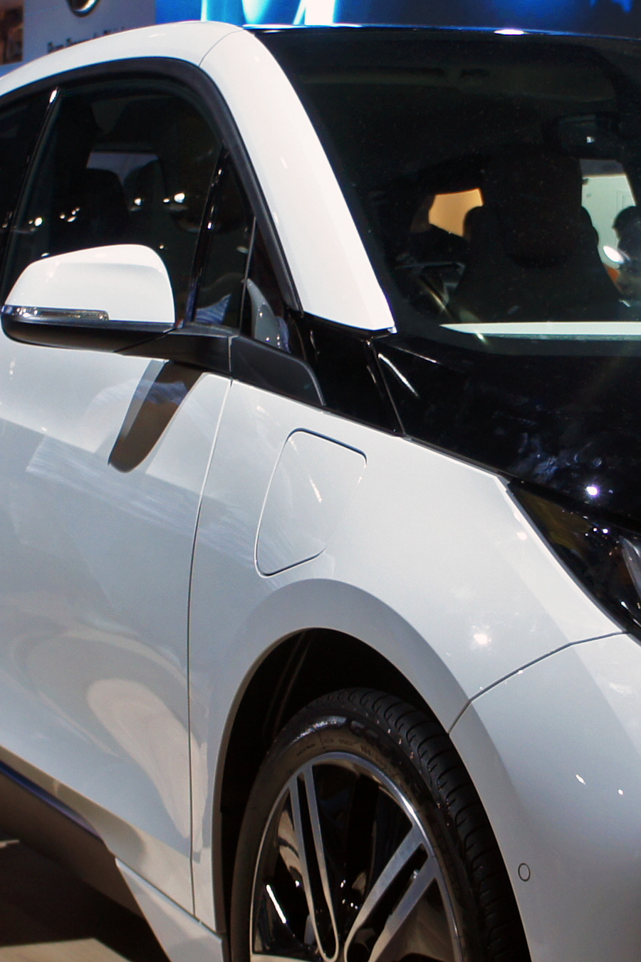 Detail of the gasoline fuel door located at the front right side of the BMW i3 REx